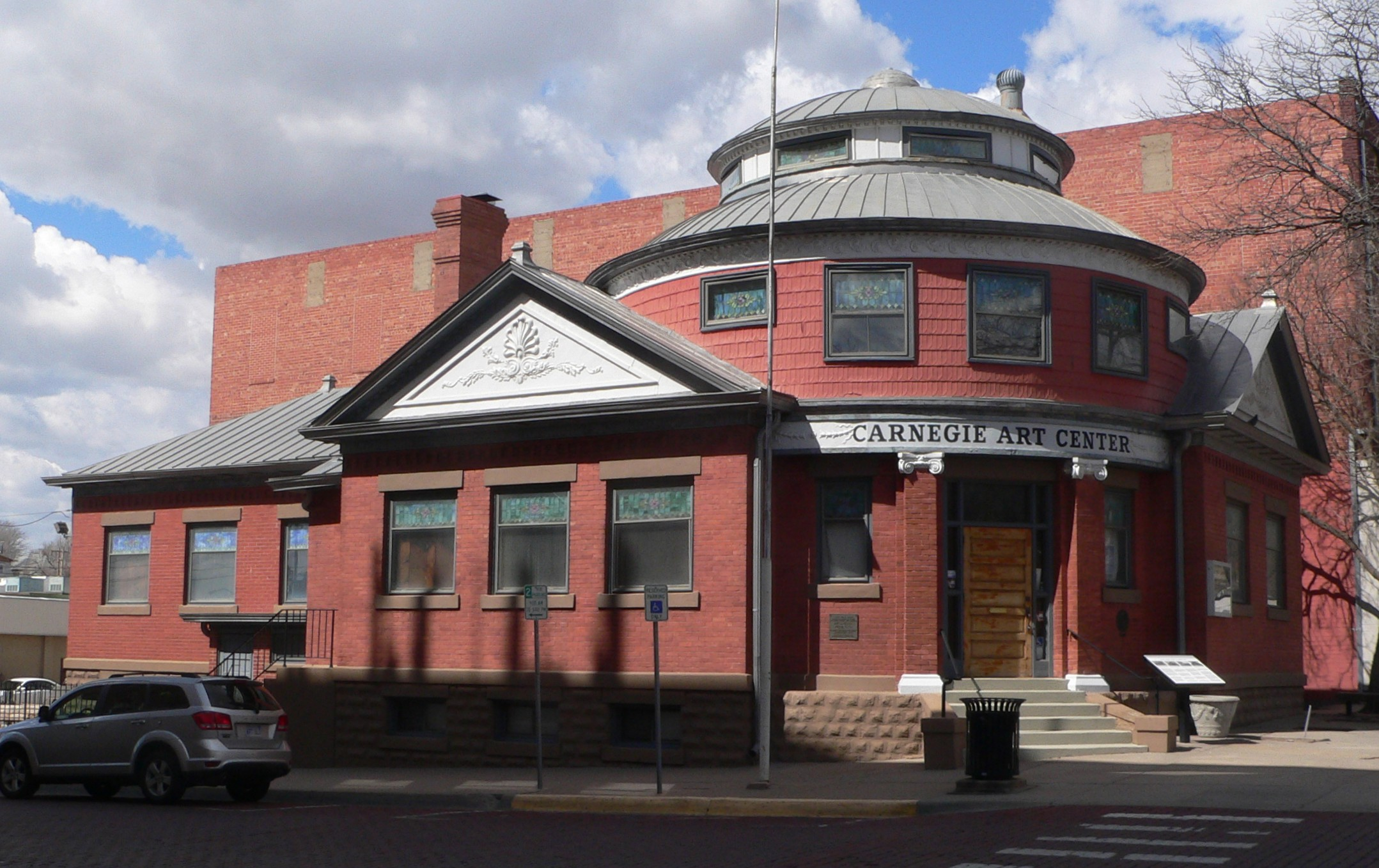 Carnegie Art Center, formerly library, at northwest corner of 2nd Avenue and Spruce Street in Dodge City, Kansas; seen from the southeast.